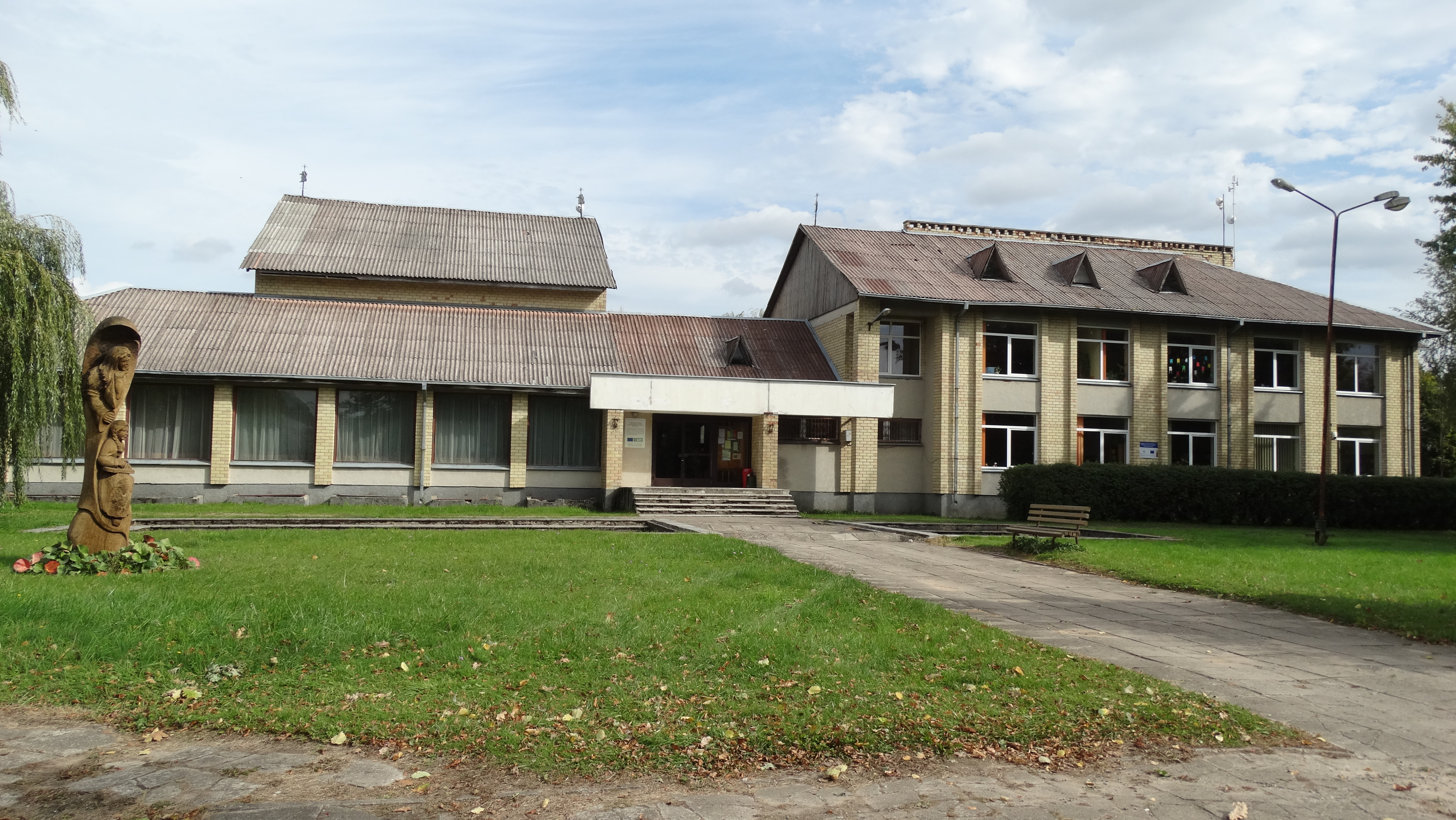 Skriaudžiai, Prienai district, Lithuania